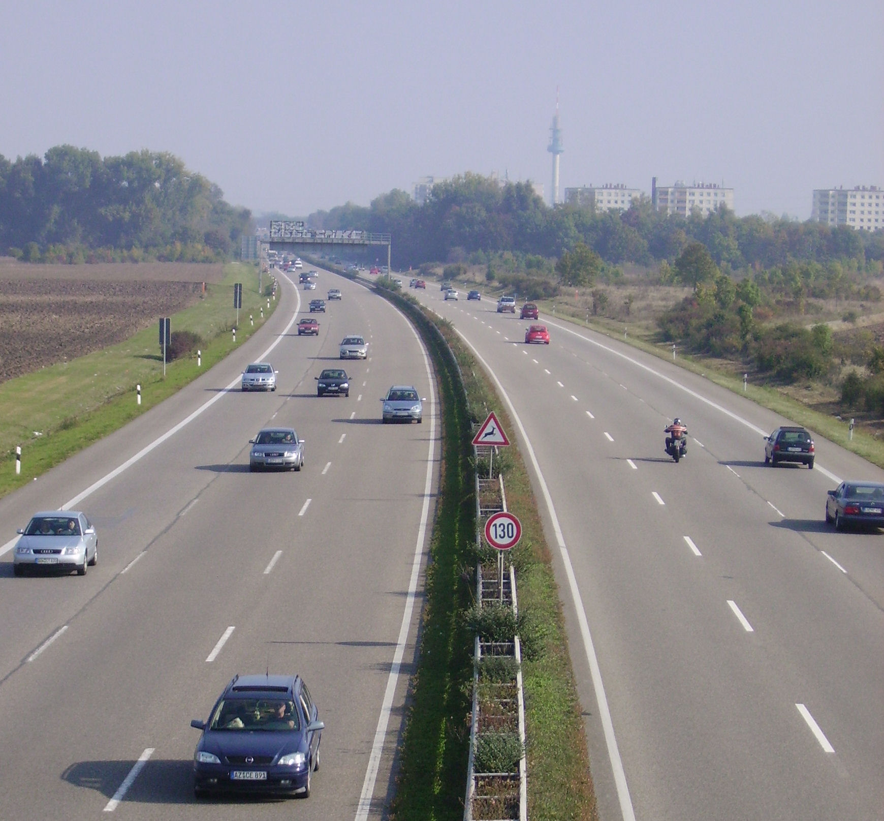 motorway A 650 at Ludwigshafen in Rhineland-Palatinate (Germany)